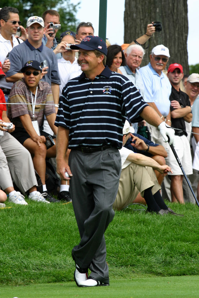 Fred Funk practicing a day before the 2004 Ryder Cup at the Oakland Hills Country Club in Bloomfield Hills, Michigan.